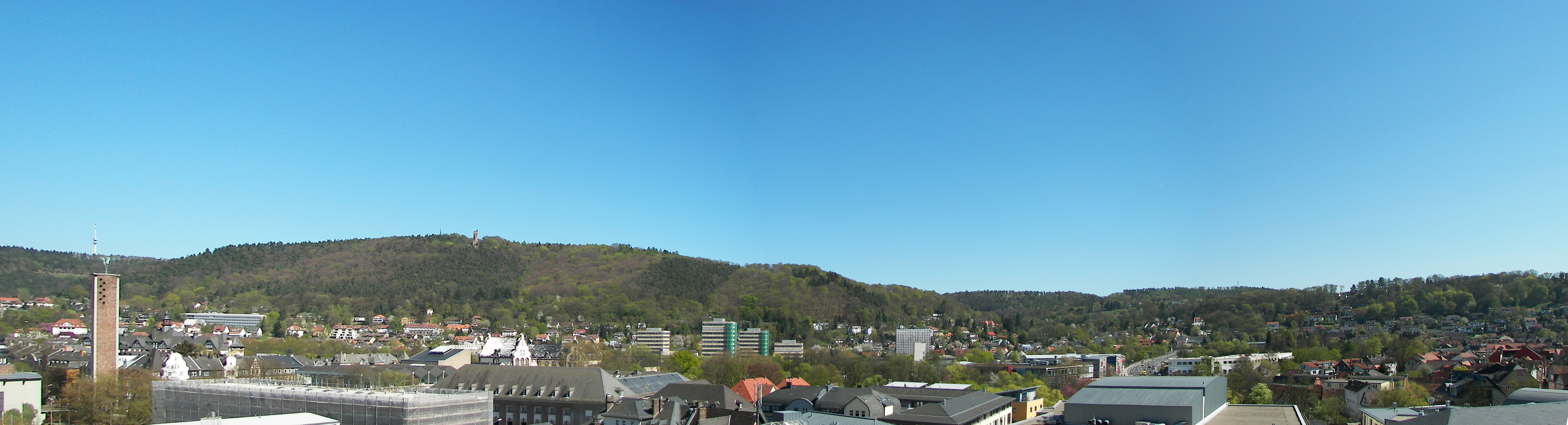 Lahn Hills in Marburg, Hesse, Germany